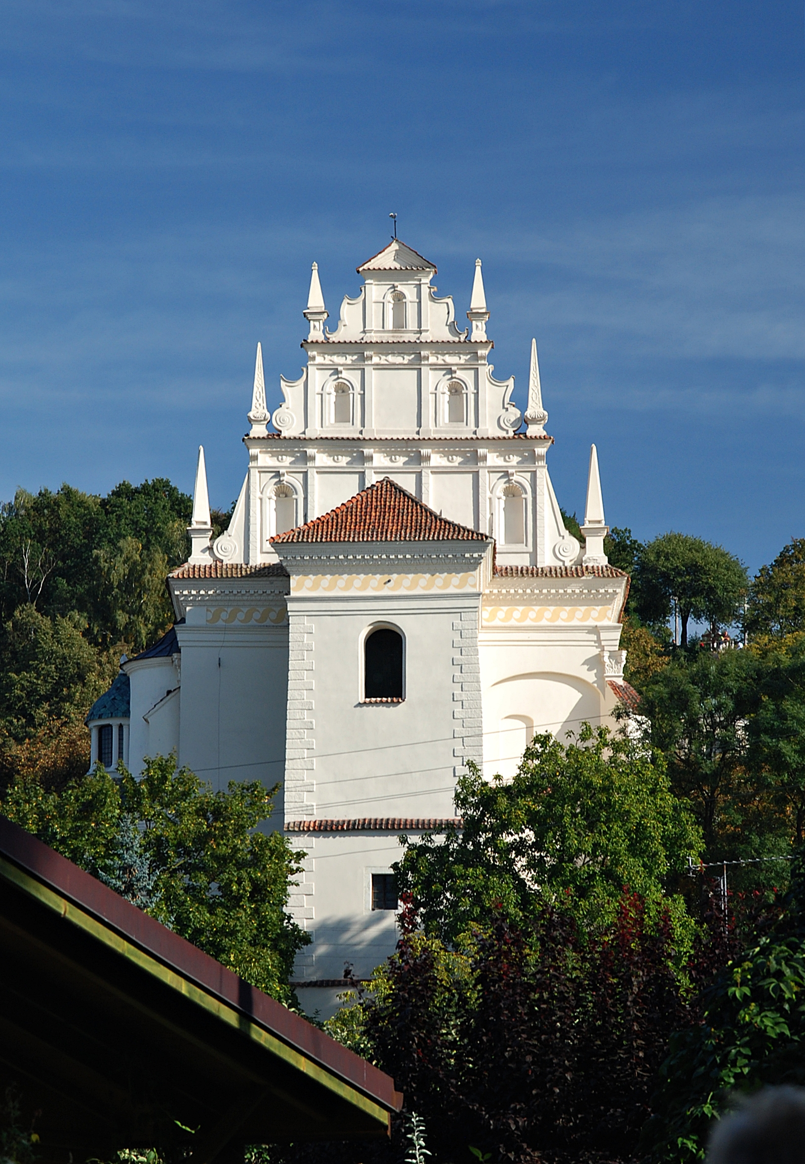 Church of St. John Baptist and St. Bartholomew in Kazimierz Dolny